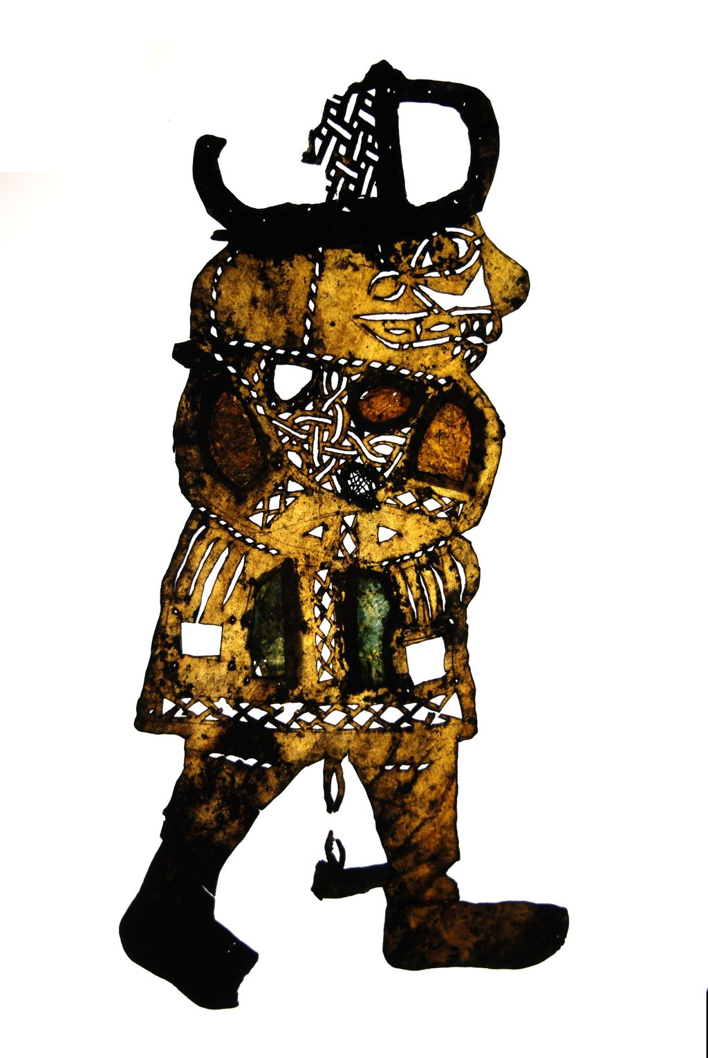 Prisoner, shadow puppet, Egypt, 14th to 18th century. Collected by Paul Kahle 1909, in Linden-Museum, Stuttgart